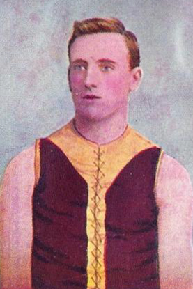 Cigarette card of Percy Sheehan from the 1905 Wills Past and Present Champions series.